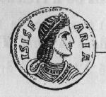 Helen, the daughter of Constantine I, on a roman coin.